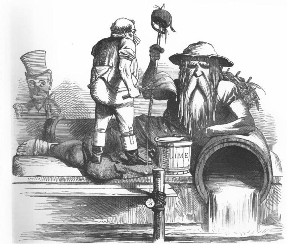 "How Dirty Old Father Thames was Whitewashed": a satirical comment on the state of the River Thames, from Punch magazine, 31 July 1858, page 41